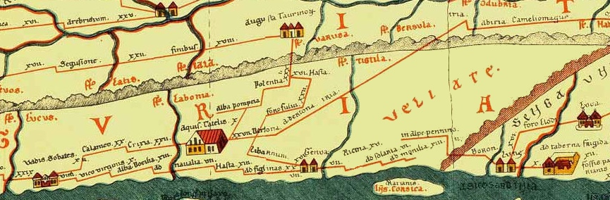 TabulaPeutingeriana, 1-4th century CE. Facsimile edition by Conradi Millieri, 1887/1888. Image cropped near Genoa (Italy), from the original file